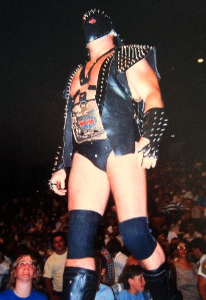 A member of professional wrestling tag team Demolition (Bill Eadie and Barry Darsow) wearing the WWF Tag Team Championship.